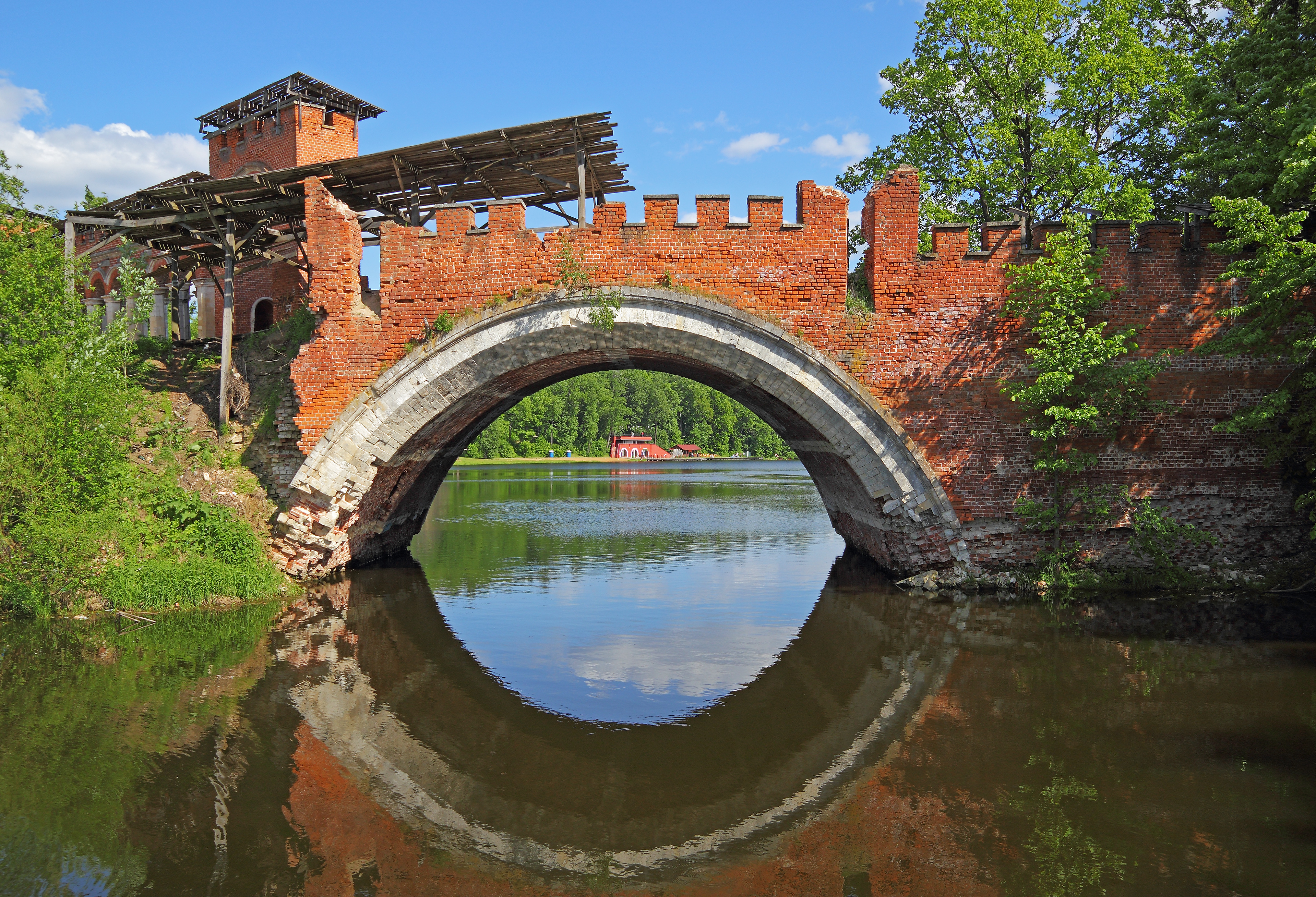 Mytischi District, Moscow Oblast, Russia. The ensemble of the former Marfino Estate. Grand bridge.